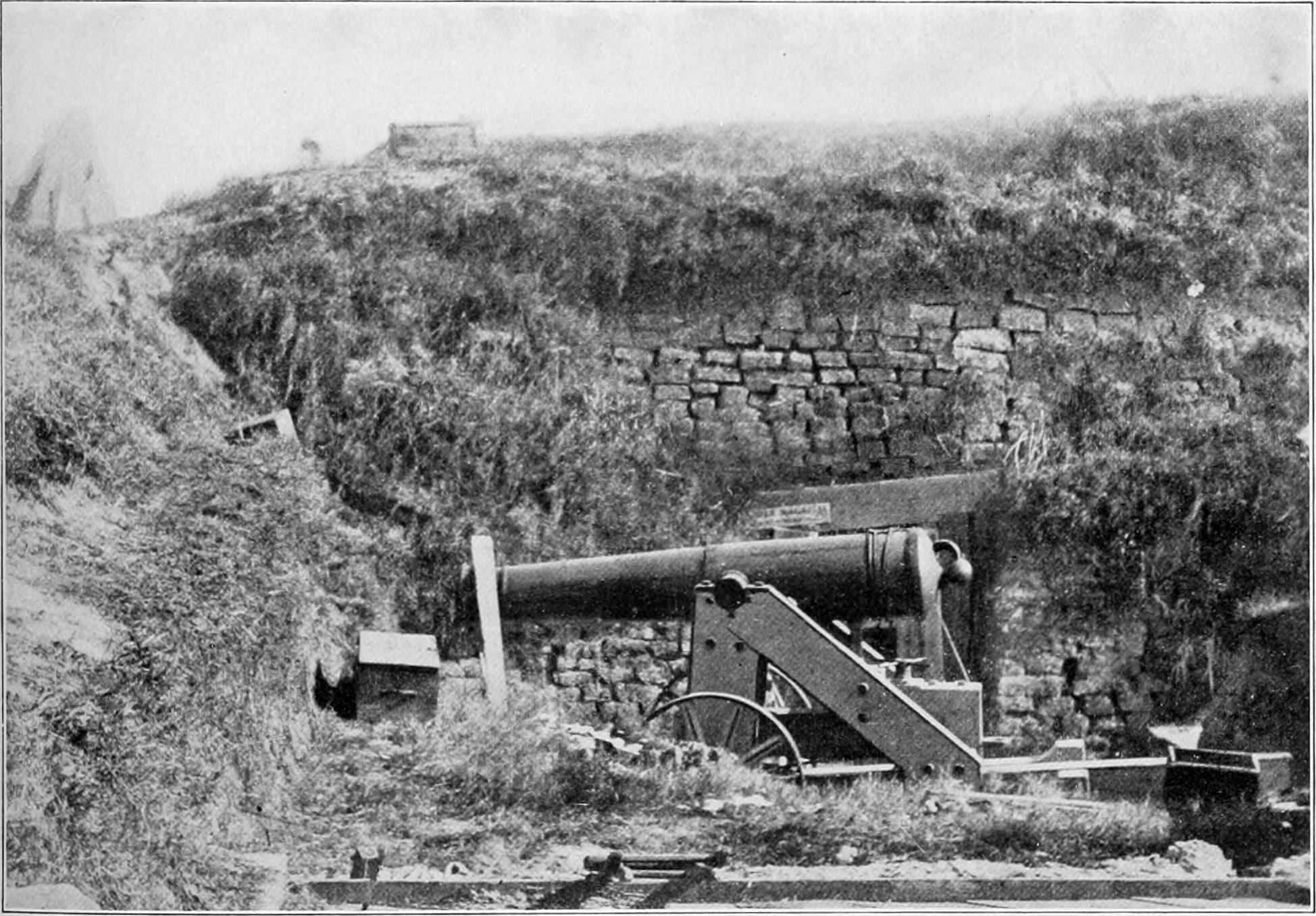 Title: The photographic history of the Civil War : thousands of scenes photographed 1861-65, with text by many special authorities Year: 1911 (1910s) Authors: Miller, Francis Trevelyan, 1877-1959 Lanier, Robert S. (Robert Sampson), 1880- Subjects: United States -- History Civil War, 1861-1865 Pictorial works United States -- History Civil War, 1861-1865 Publisher: New York : Review of Reviews Co. Text Appearing Before Image: THE DEFENDER OF SAVANNAH Shermans dependence for supplies. Itwas accordingly manned by a force oftwo hundred under command of MajorG. \V. Anderson, provided with fiftydays rations for use in case the workbecame isolated. This contingency didnot arrive. About noon of December13th, Major Andersons men saw troopsin blue moving about in the woods.The number increased. The artilleryon the land side of the fort was turnedupon them as they advanced from oneposition to another, and sharpshooterspicked off some of their officers. .\thalf-past four oclock, however, thelong-expected charge was made fromthree different directions, so that thedefenders, too few in number to holdthe whole line, were soon overpowered.Hardee now had to consider more nar-rowly the best time fcr withdrawingfrom the lines at Savannah. Text Appearing After Image: COPYfl;Hr, 1911, PAiHiof Pua CO. FORT McAllister—THE last barrier to the sea